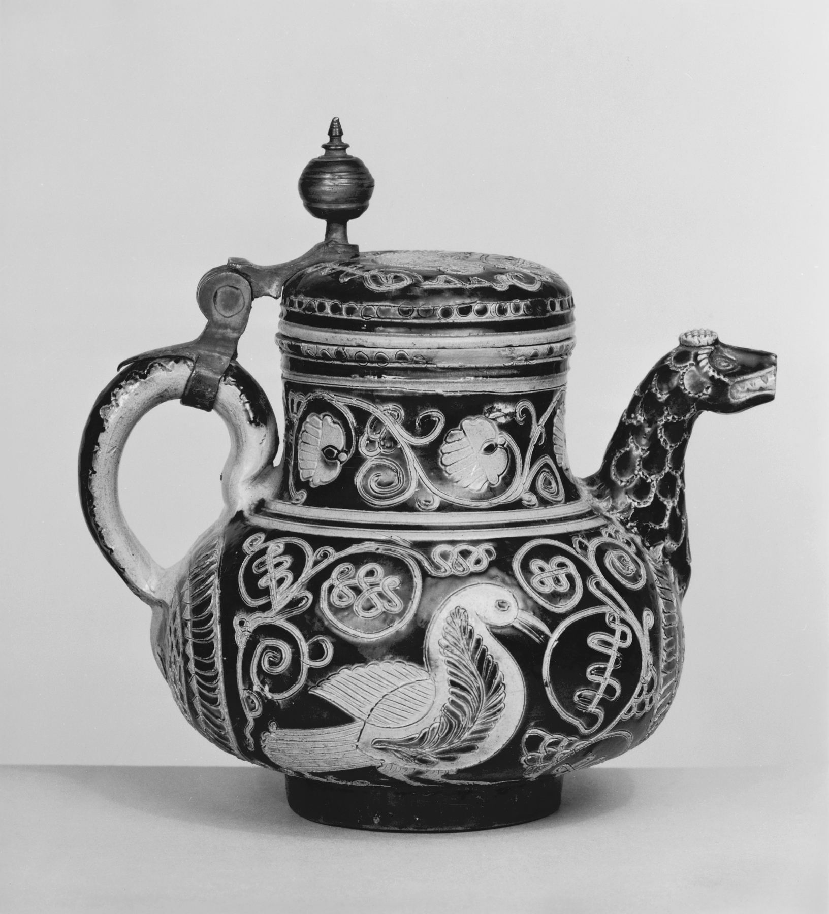 The decorative motifs on this teapot may ultimately derive from medieval Scandinavia.